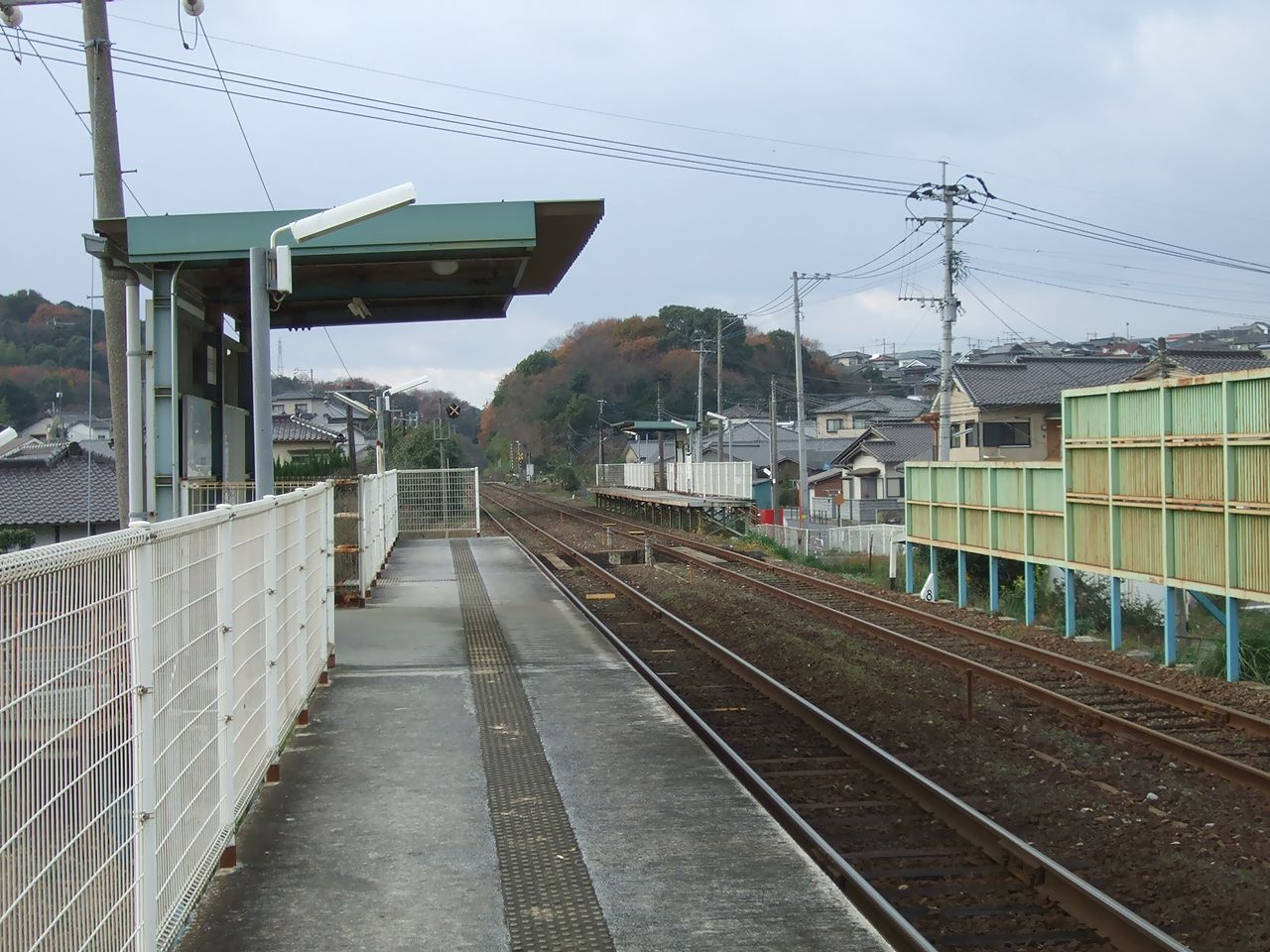 Fujitana Station, Ita Line, Heisei Chikuho Railway, Nogata City, Fukuoka, Japan.